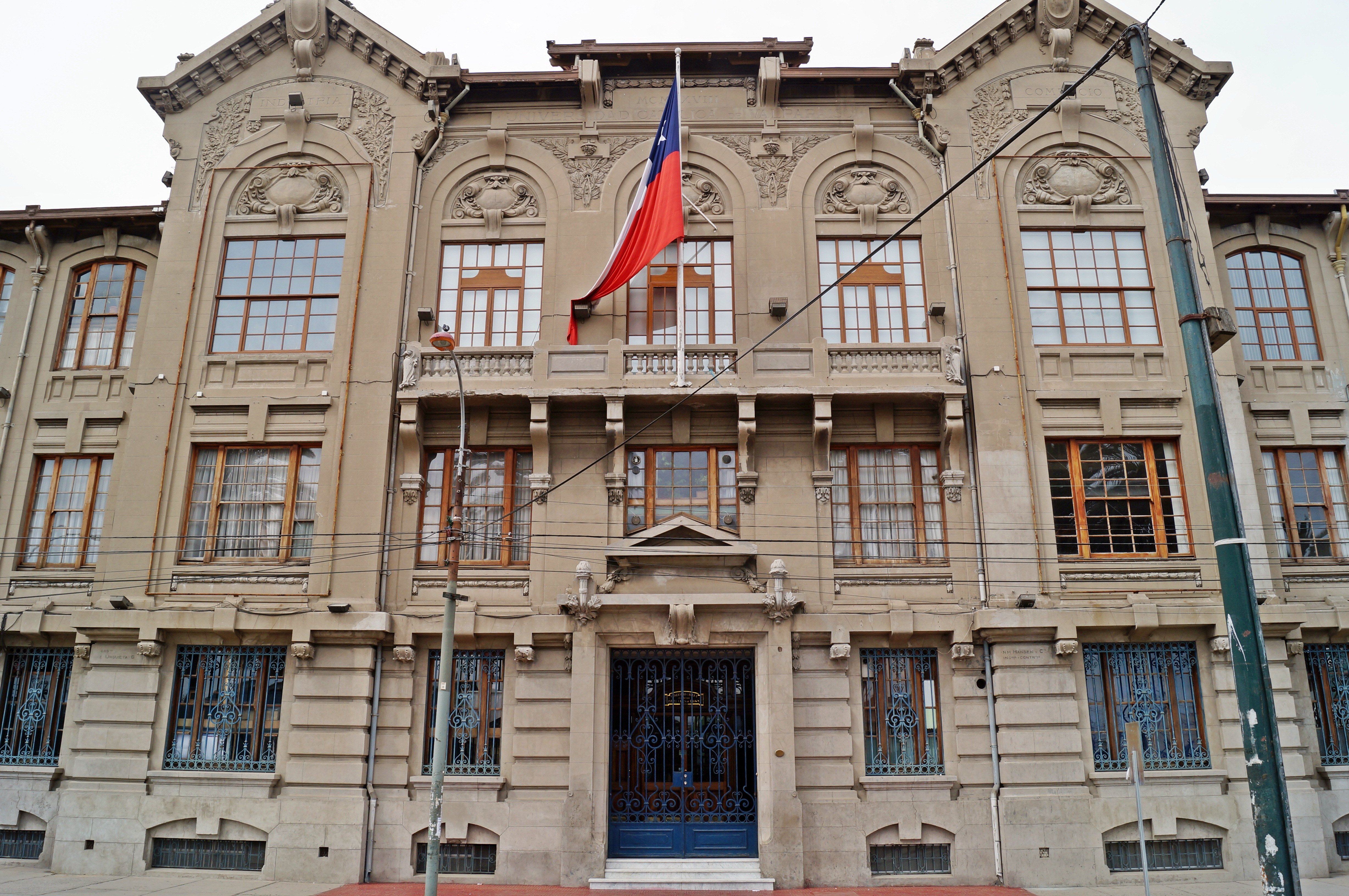 This is a photo of a national monument in Chile: 575